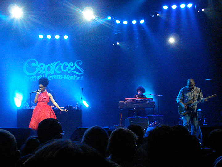 Morcheeba with Skye live at Caprices Festival 2010-04-09